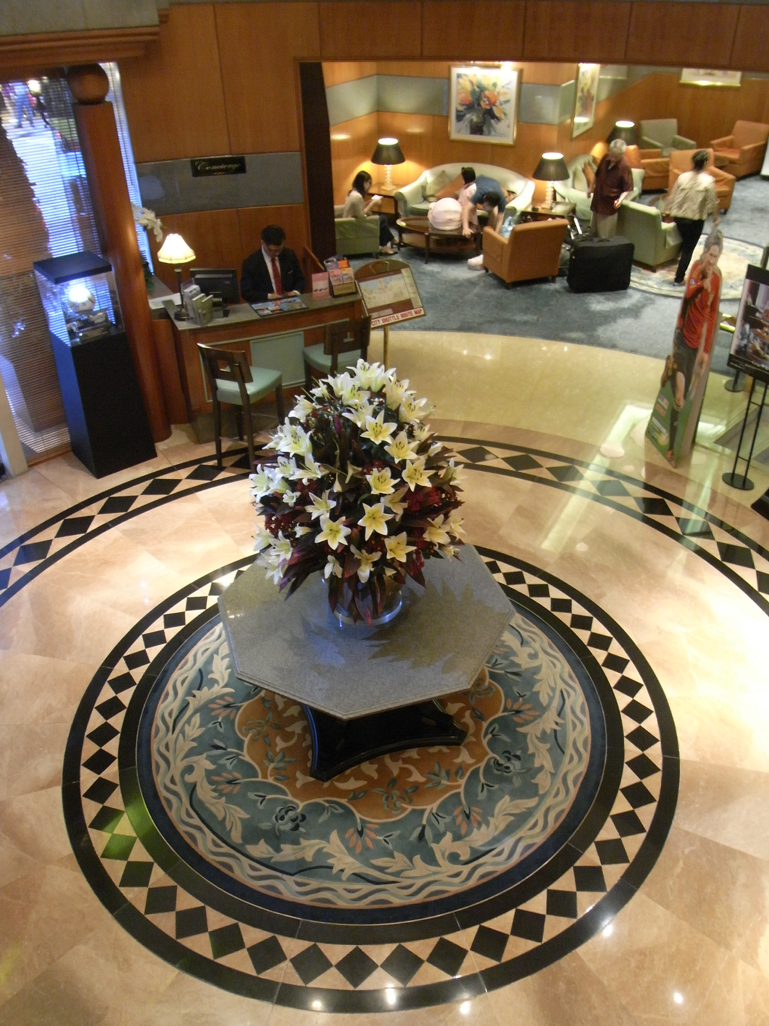 灣仔道利景酒店